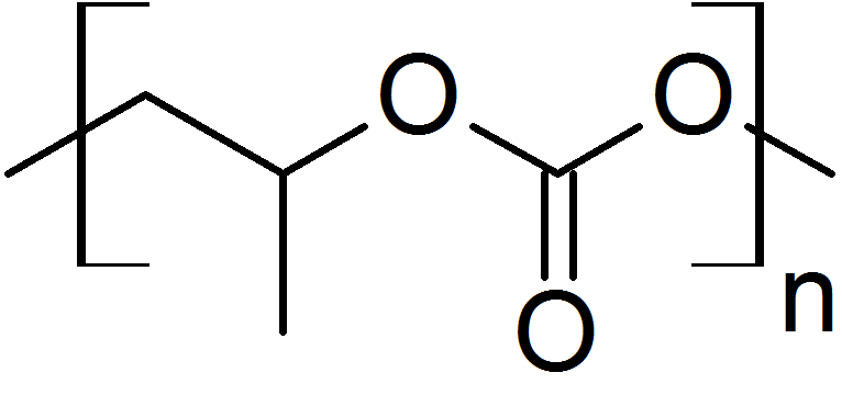 Structure of Propylene carbonate, a biodegradable co-polymer.